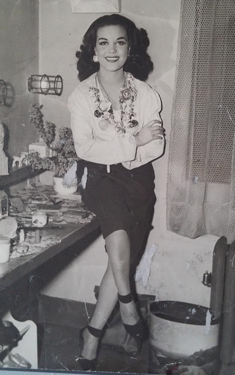 Hilda Simms, backstage after a Broadway show